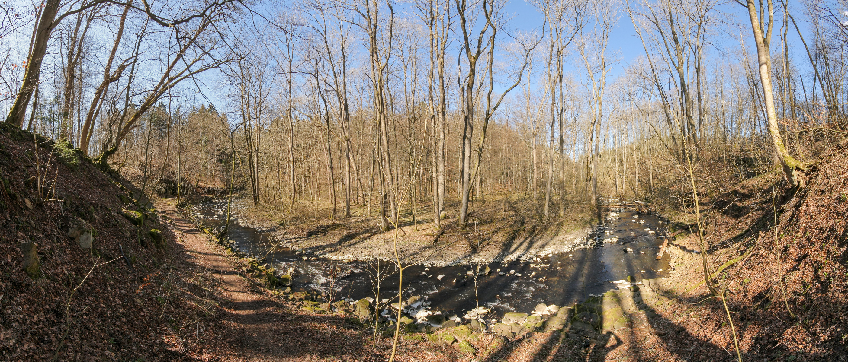 The valley of the Nister near Höhn in March NOTE: This image is a panorama consisting of multiple frames that were merged or stitched in software. As a result, this image necessarily underwent some form of digital manipulation. These manipulations may include blending, blurring, cloning, and color and perspective adjustments. As a result of these adjustments, the image content may be slightly different than reality at the points where multiple images were combined. This manipulation is often required due to lens, perspective, and parallax distortions.